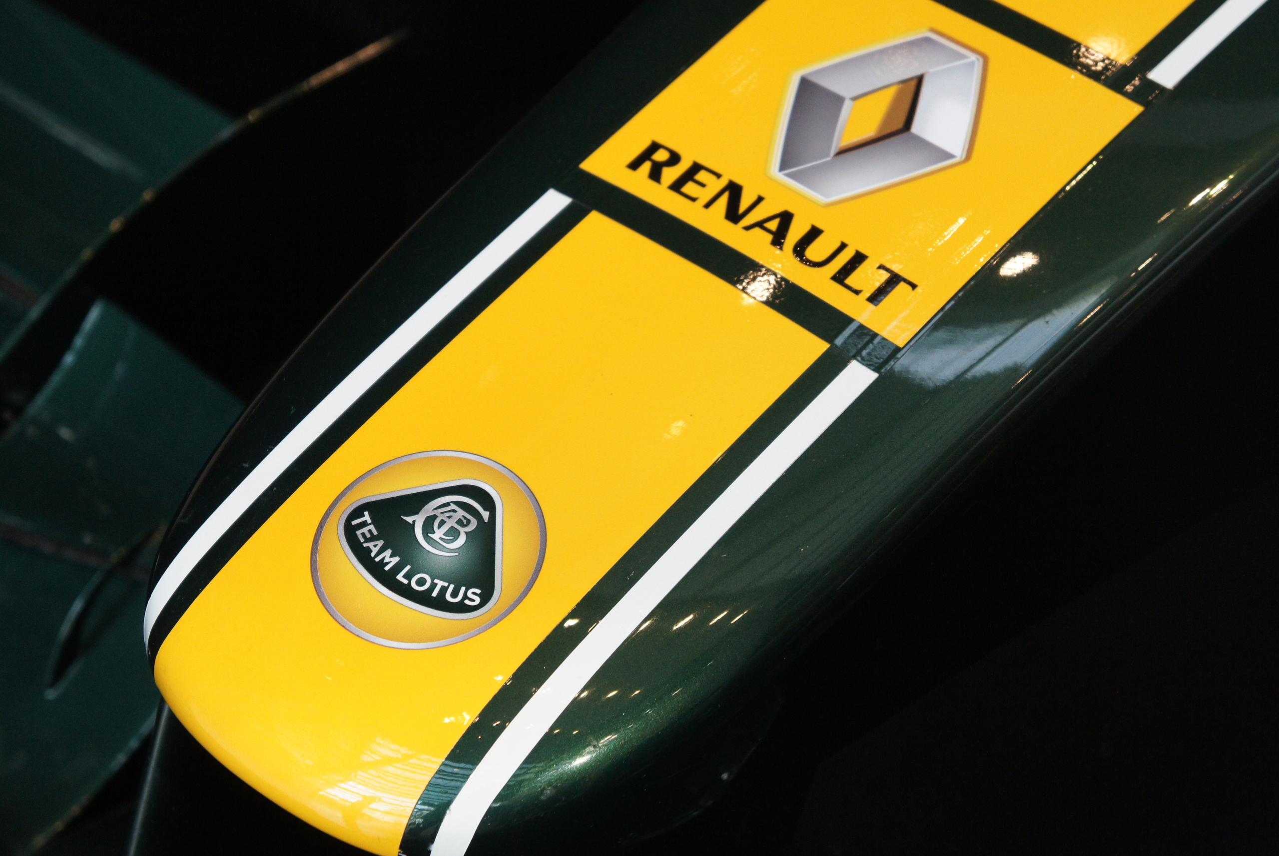 Lotus T128's nose emblem